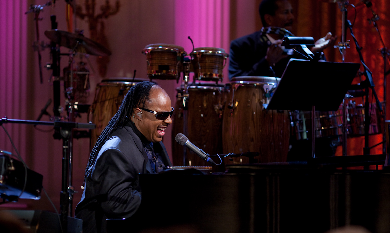 Stevie Wonder performs for President Barack Obama at the White House in Washington, D.C.